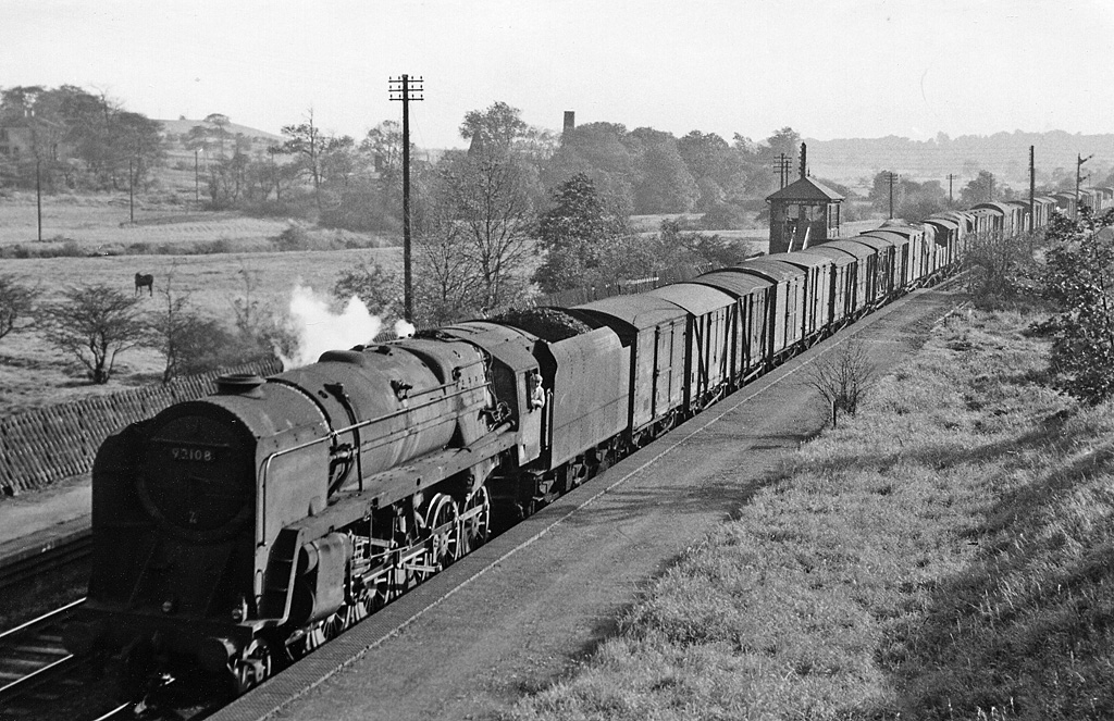 Down freight passing remains of Killamarsh West Station, View southward, towards Tapton Junction (Chesterfield); ex-Midland 'Old Road', Chesterfield - Rotherham direct section of the trunk line between London, Birmingham etc. and Leeds etc.- see also SK4481 : Return Holiday express approaching site of Killamarsh West . The Class H freight is headed by BR Standard 9F 2-10-0 No. 92108.